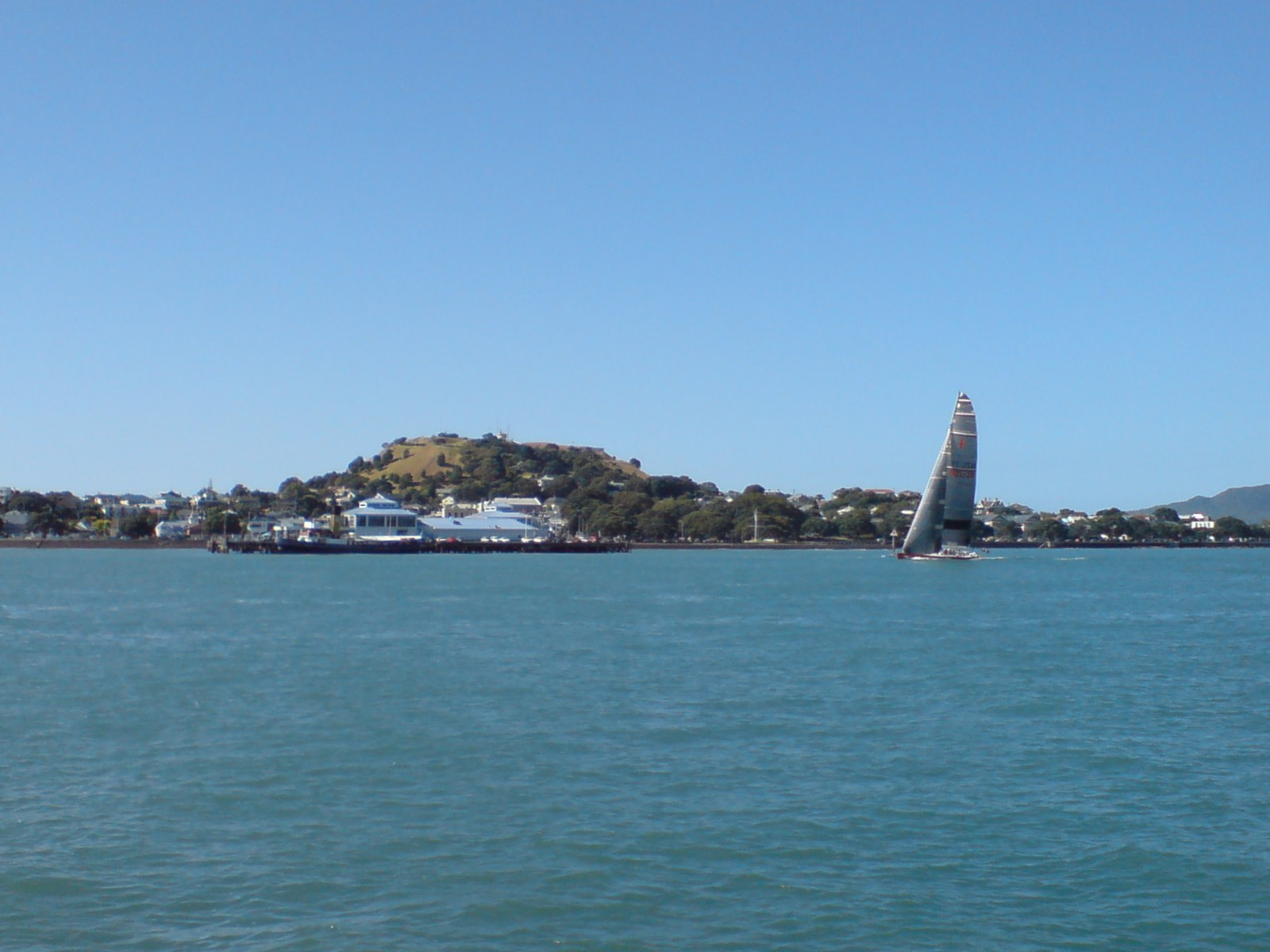 Mount Victoria in Devonport, North Shore City, New Zealand. One of the older NZ America's Cup yachts can be seen in the lower right. Looking north.